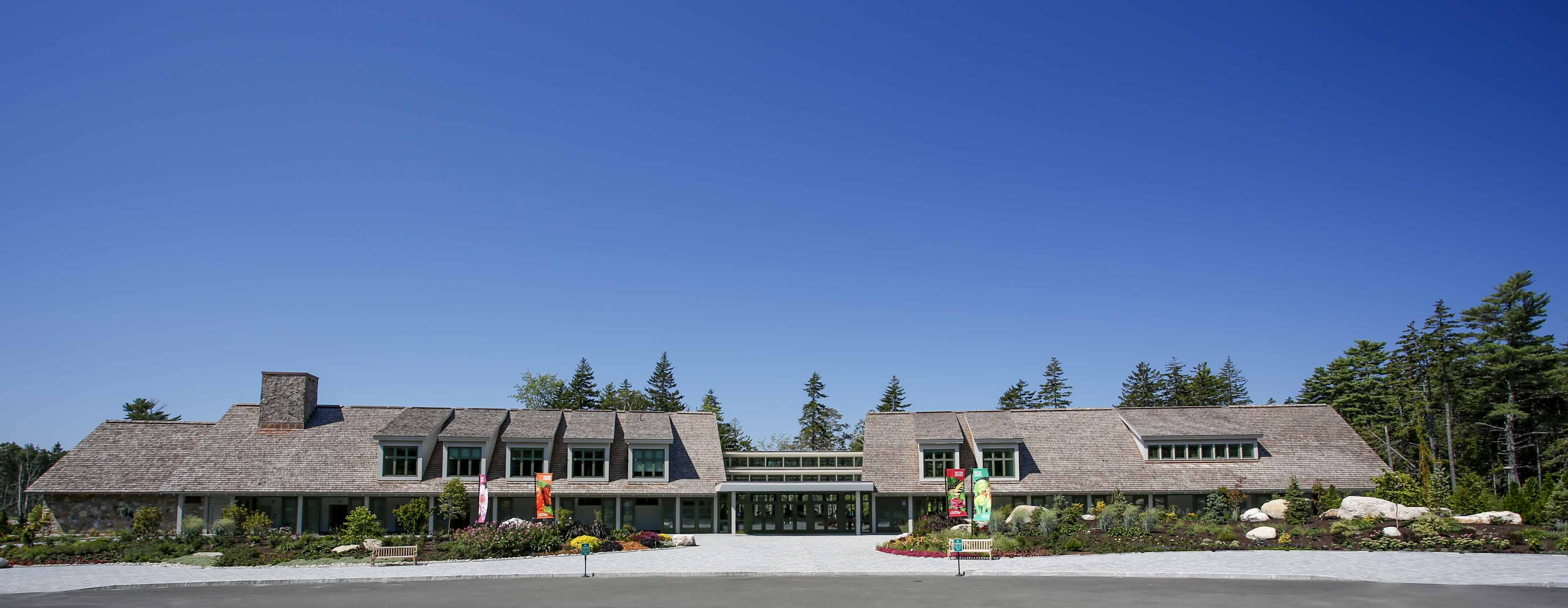 CMBG's new Visitor Center opened the 2018 season